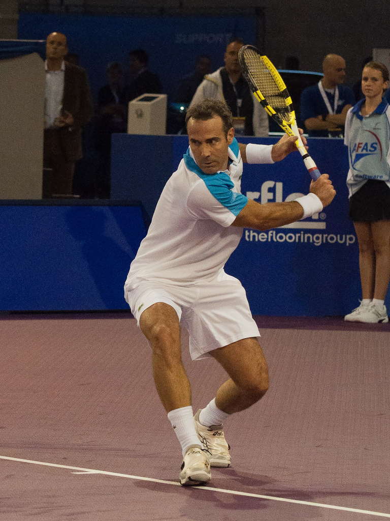 Alex Corretja preparing for a backhand at the AFAS Tennis Classics 2010 in Eindhoven, The Netherlands.